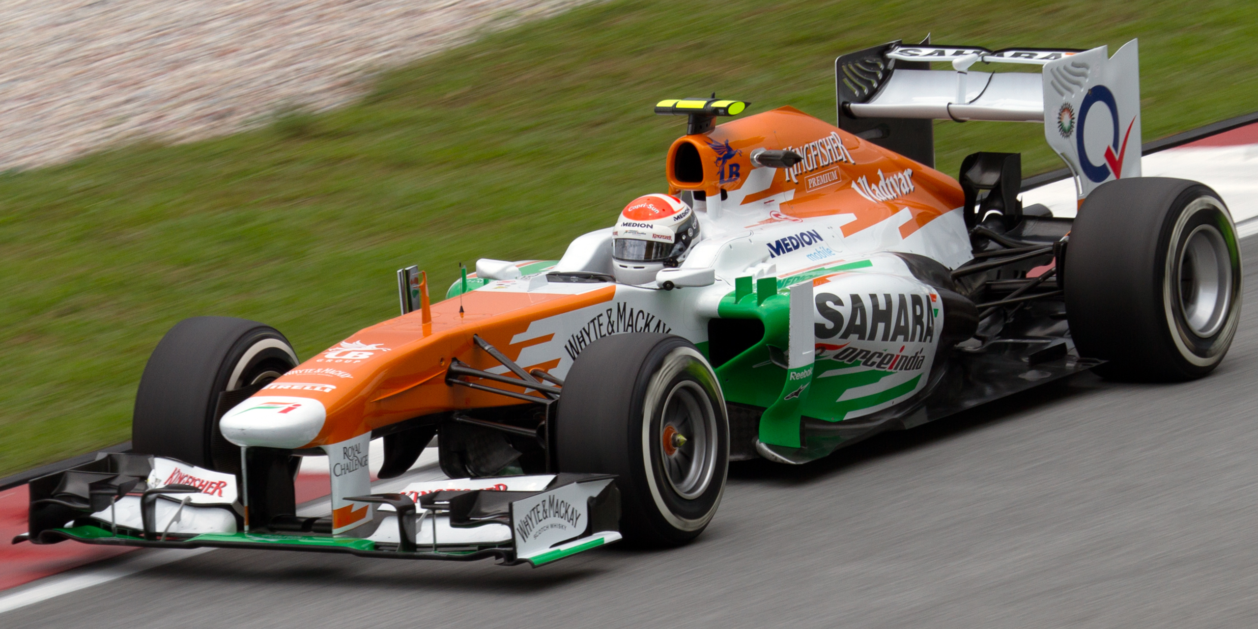 Formula One 2013 Rd.2 Malaysian GP: Adrian Sutil (Force India) during the second practice session on Friday.